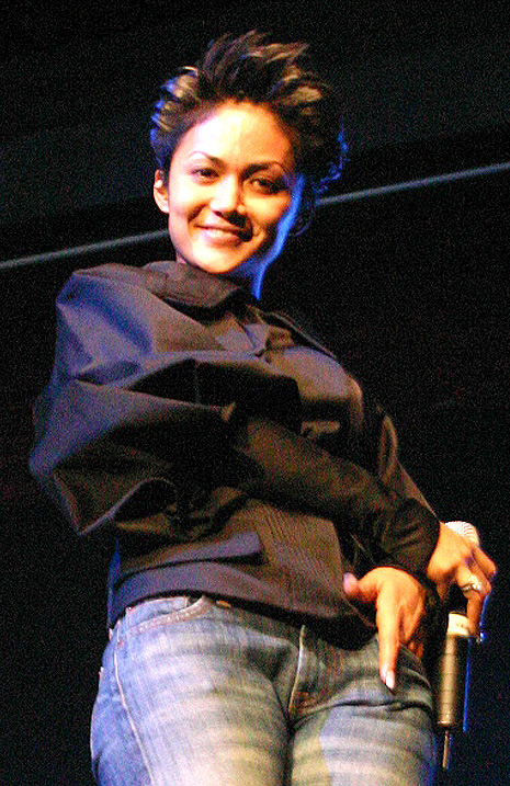 Krisdayanti Concert in Suntec, Singapore, 26 June 2004